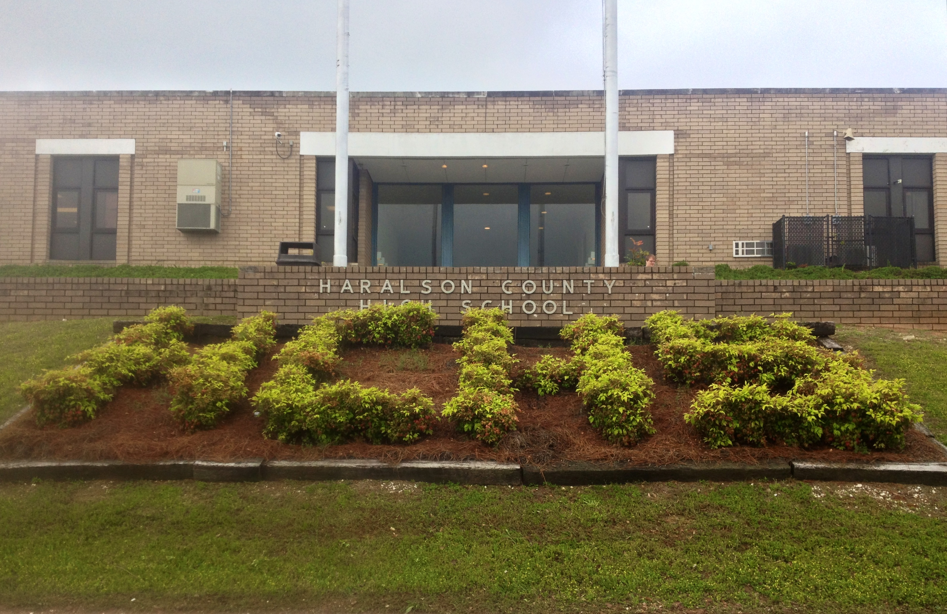 This is a picture of the main entrance to the main building on campus at Haralson County High School in Tallapoosa, GA. The windows, flagpoles, sign, and decorative shrubbery are shown.